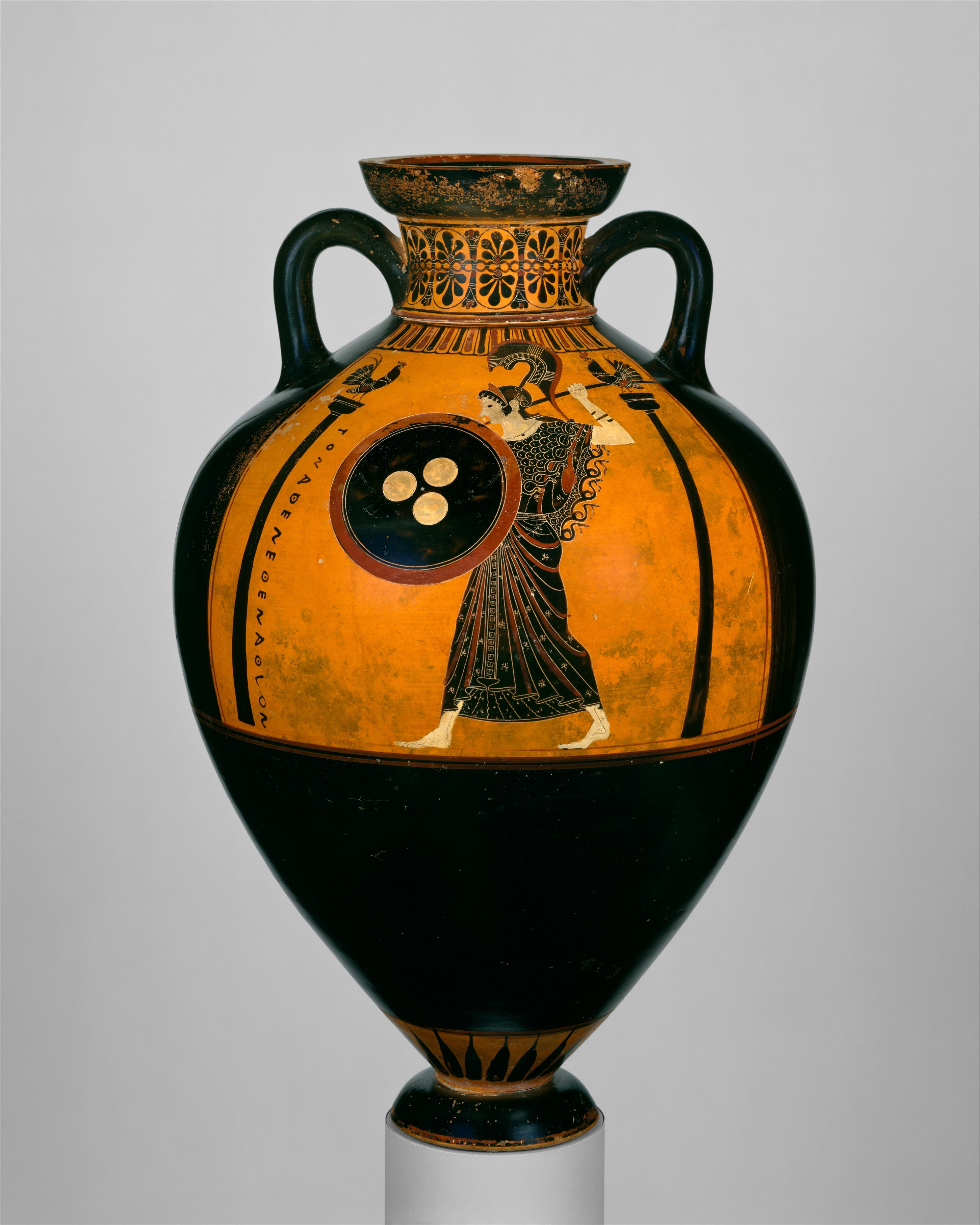 Greek, Attic; Panathenaic prize amphora; Vases